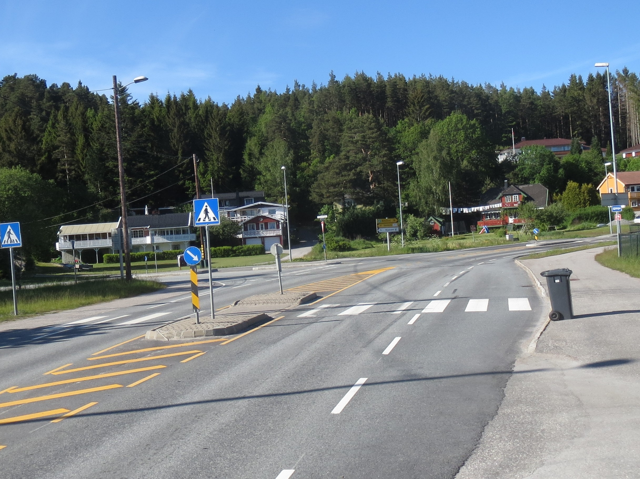 Ryen, Kristiansand, NorwayNorsk bokmål: Ryen i Tveit i Kristiansand kommune, veikryss RV41/FV453